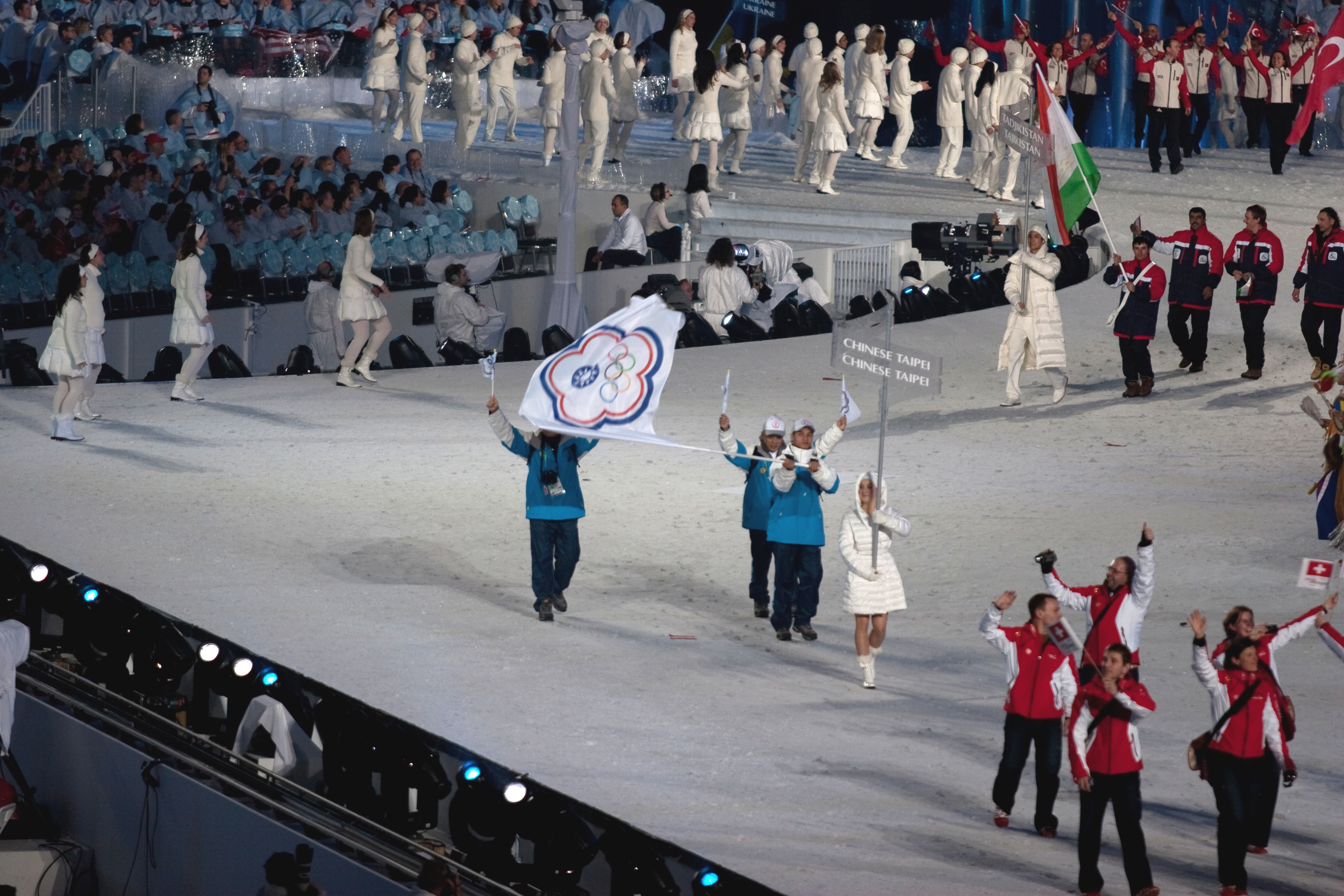 The athletes from Chinese Taipei entering the stadium at the opening ceremonies of the 2010 Winter Olympics, with Ma Chih-hung carrying the national flag.